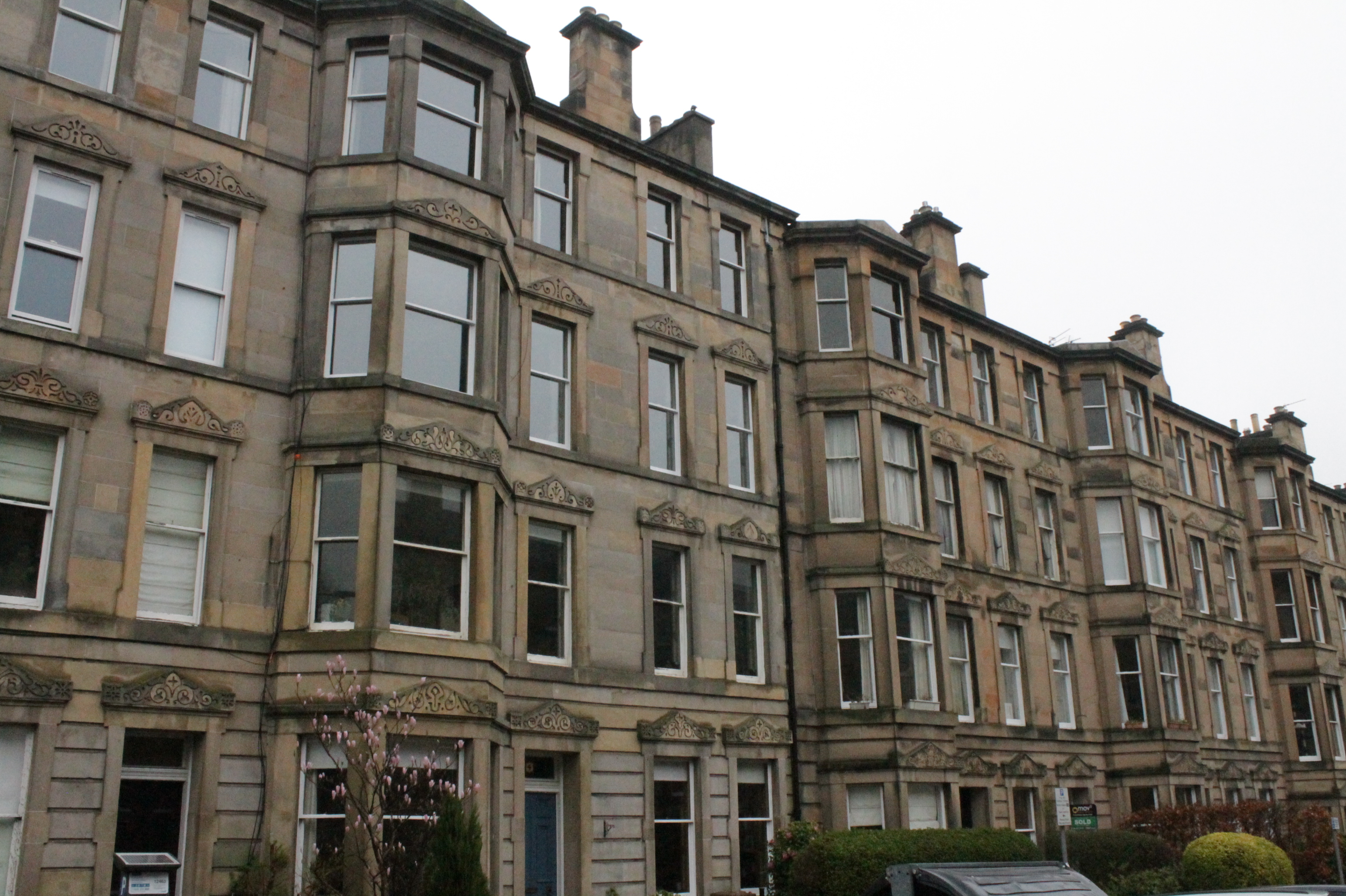 6 to 11 Woodburn Terrace, Edinburgh